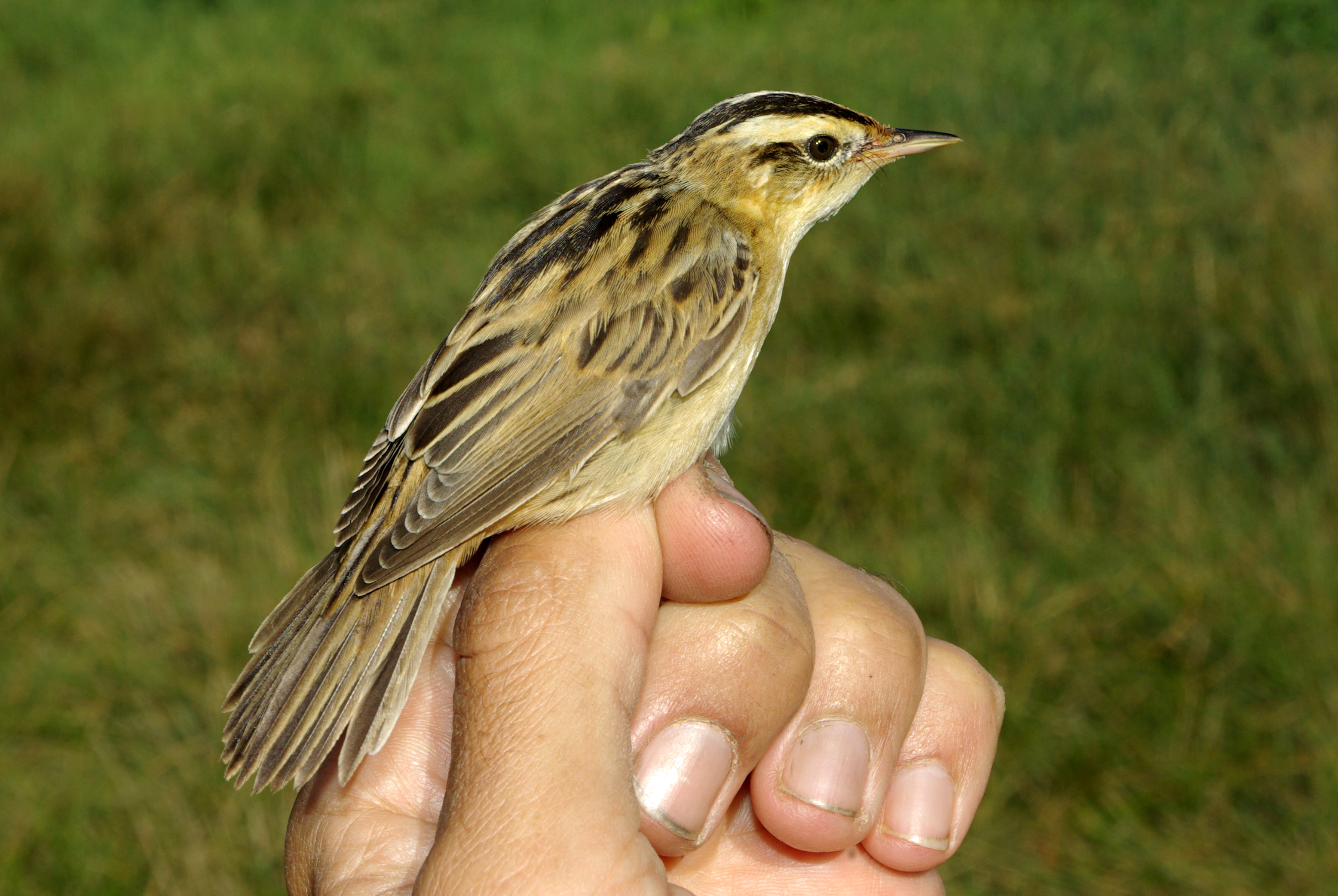 Aquatic Warbler (Acrocephalus paludicola) ringed in Zambroncinos del Páramo lagoon (León, Spain)